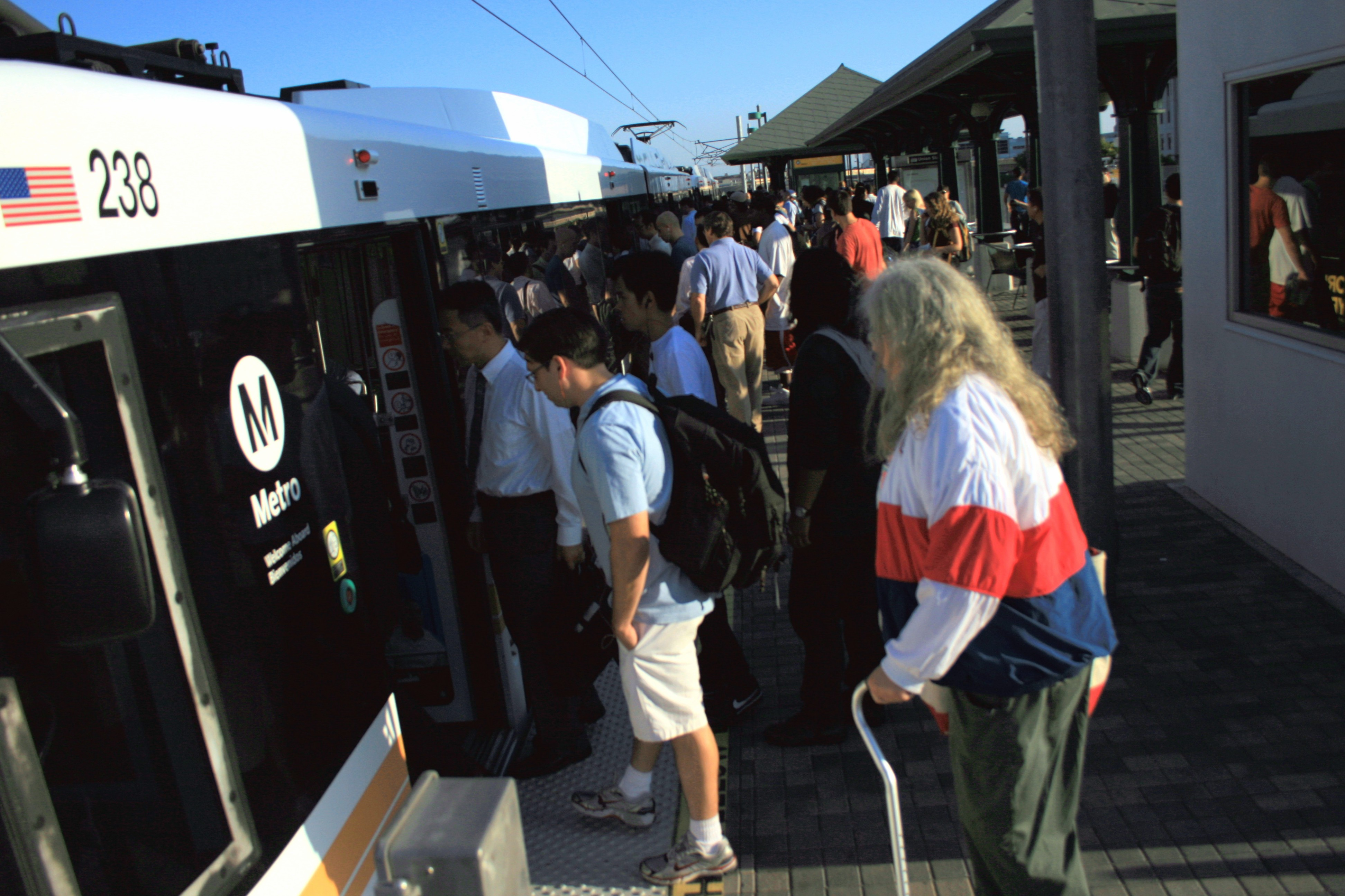 Union Station Down Town Los Angeles, California